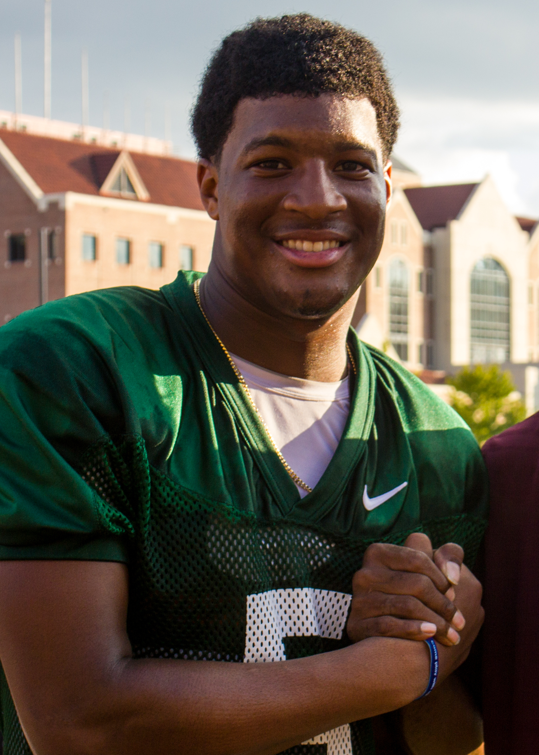 Volunteer guardian ad litem and community supporter Omega Wynn with Florida State Seminoles quarterback Jameis Winston (5) at the outdoor practice fields of the Albert J. Dunlap Athletic Training Facility in Tallahassee, Florida on October 8, 2013.